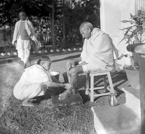 Kasturba washing Gandhi's feet.